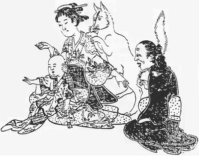 Kitsunetsuki